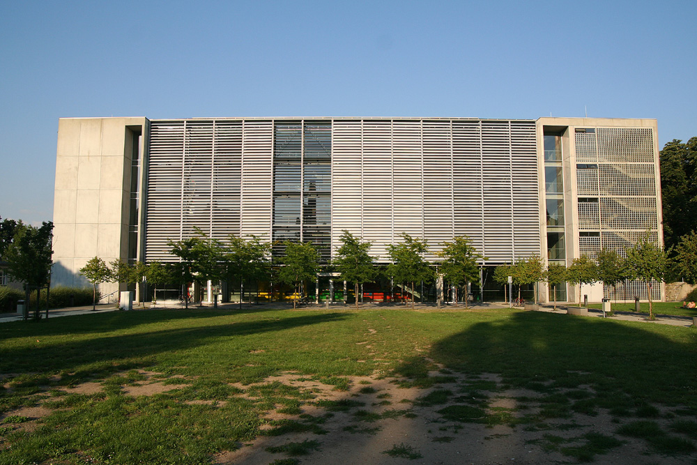 Main lecture building at the Dresden University of Technology